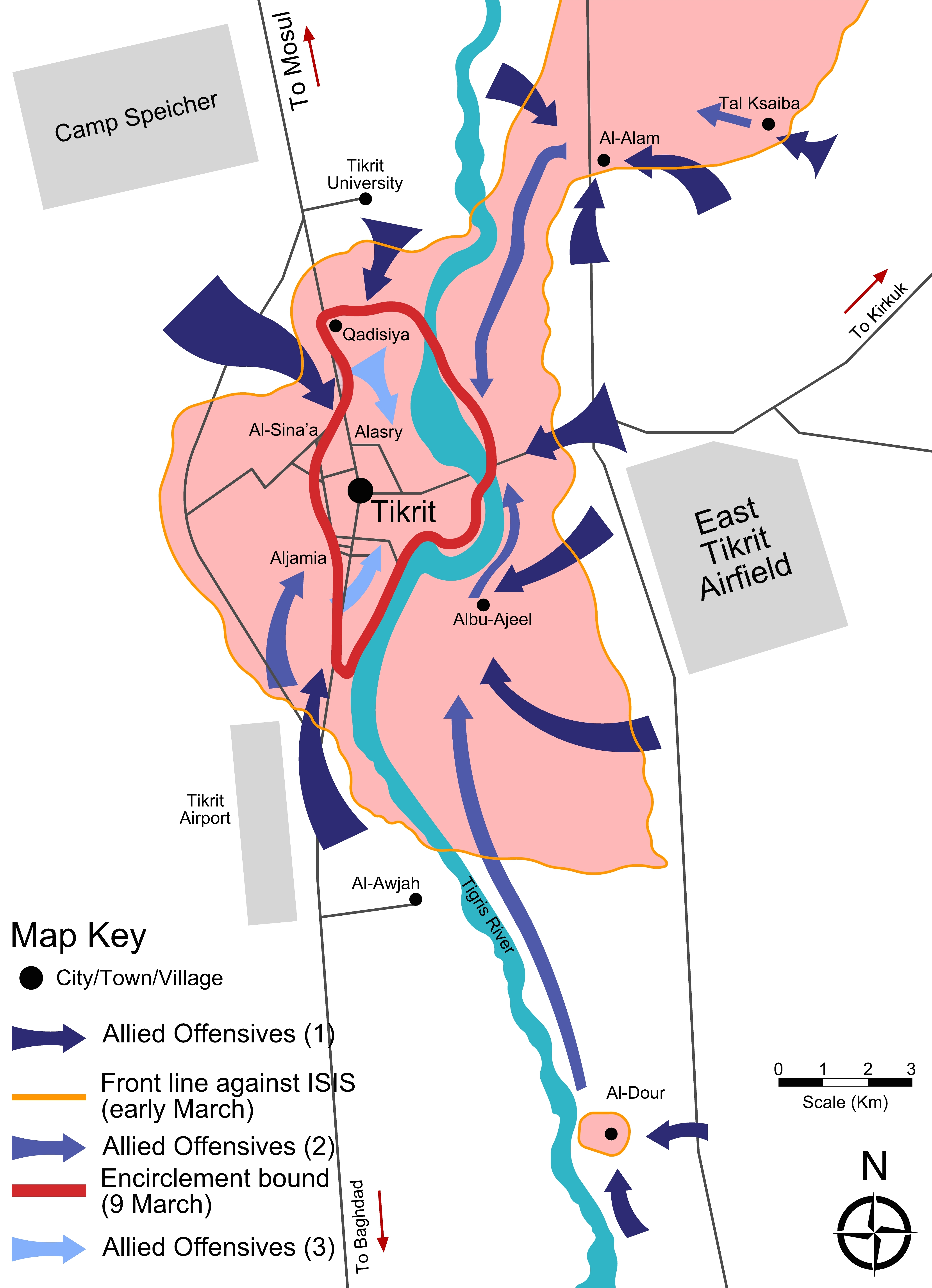 The map of March version of the Second Battle of Tikrit redone and traced in Google Sketchup, based on "File:Second Battle of Tikrit (March 2015).jpeg" by Parsa1993. (This not in colored pencil)